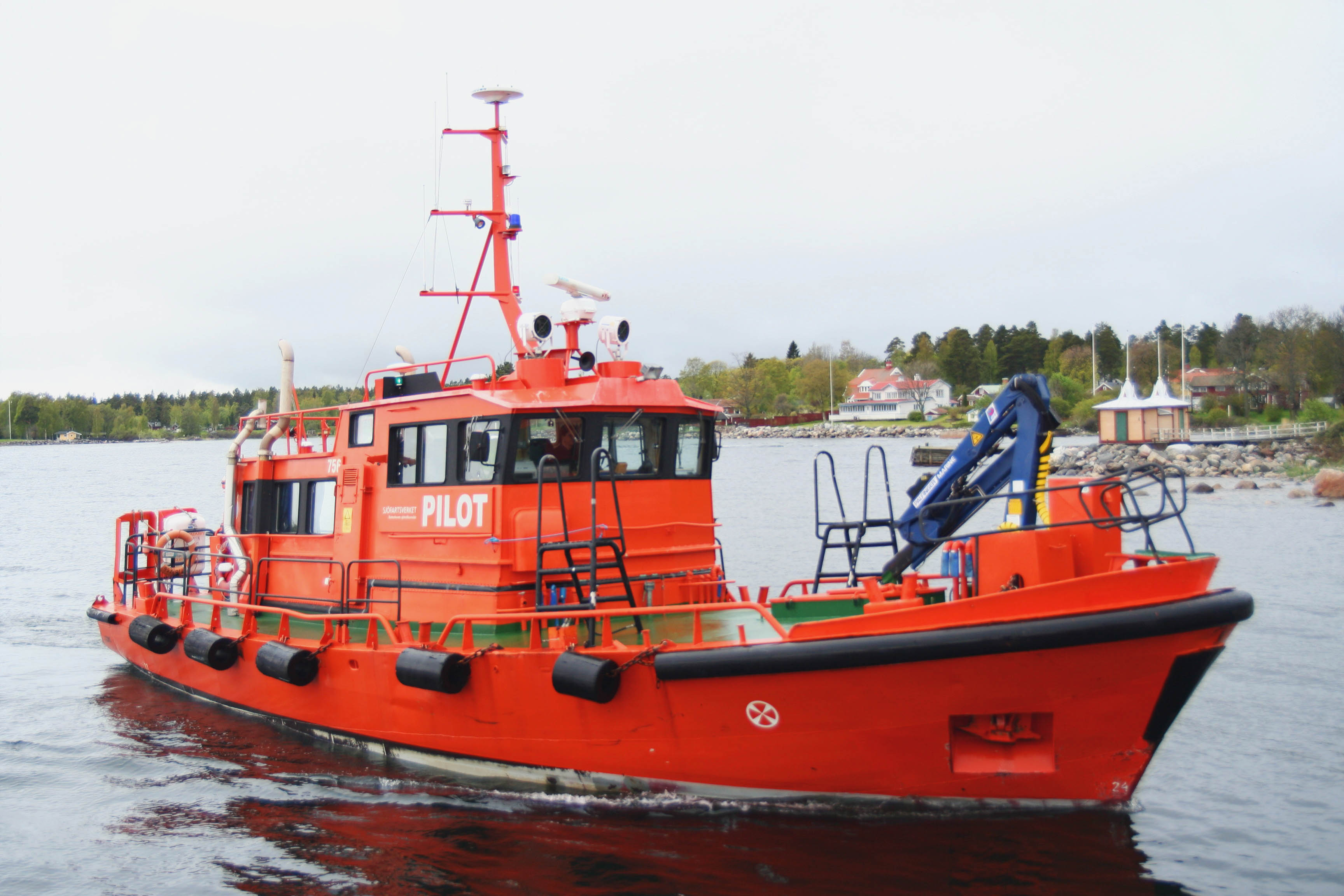 Picture of a pilot boat belonging to the Swedish Maritime Administration.